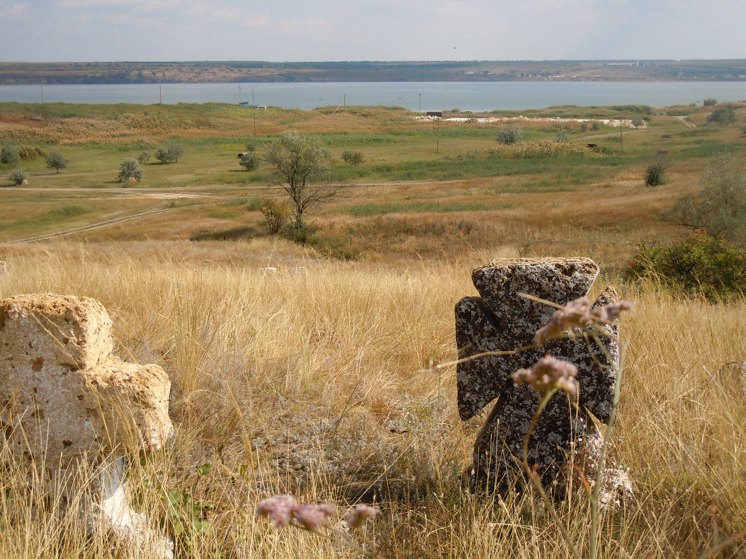 Cossacks graves on the kurgan near Bognatove village, Odessa Oblast, Ukraine